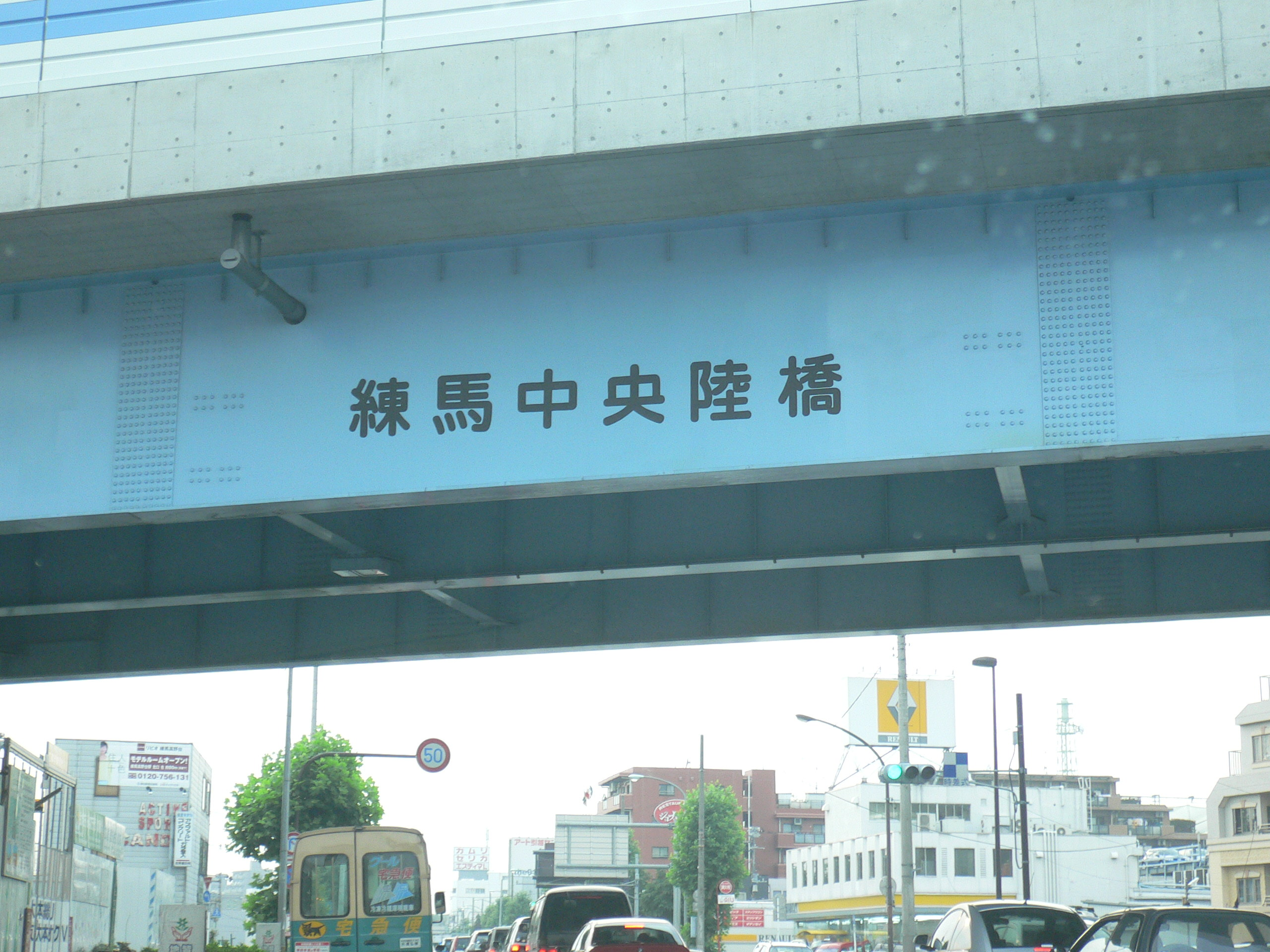 Nerima Central-road crossing(目白通り・環八通り), Nerima W, Tokyo.